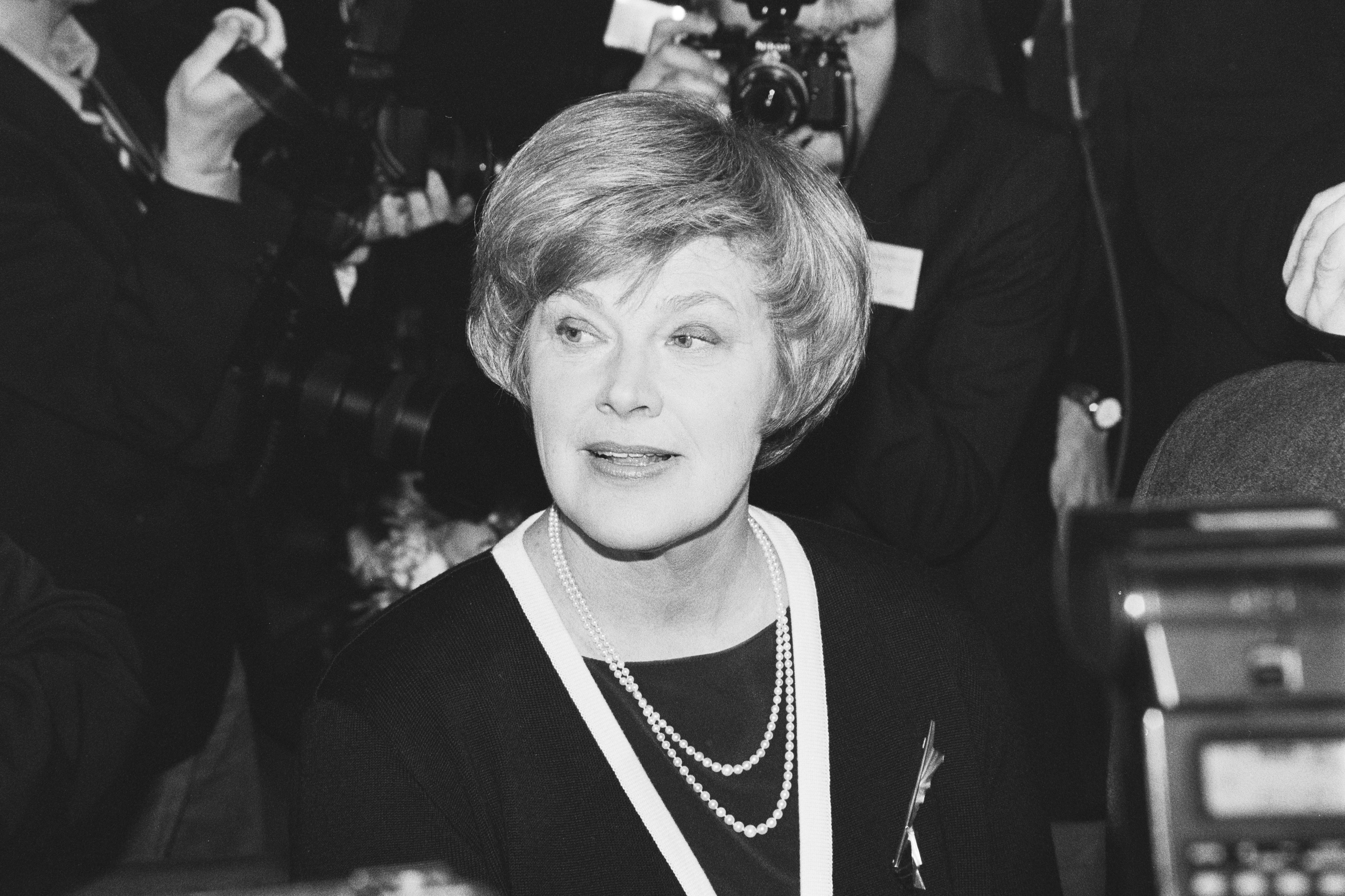 Photograph of the presidential candidate Elisabeth Rehn (1935–) during the election night.